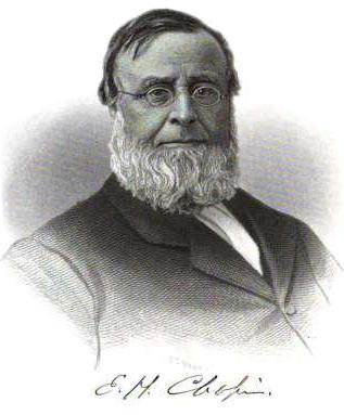 Edwin Hubbel Chapin, 19th century Unitarian Universalist preacher.